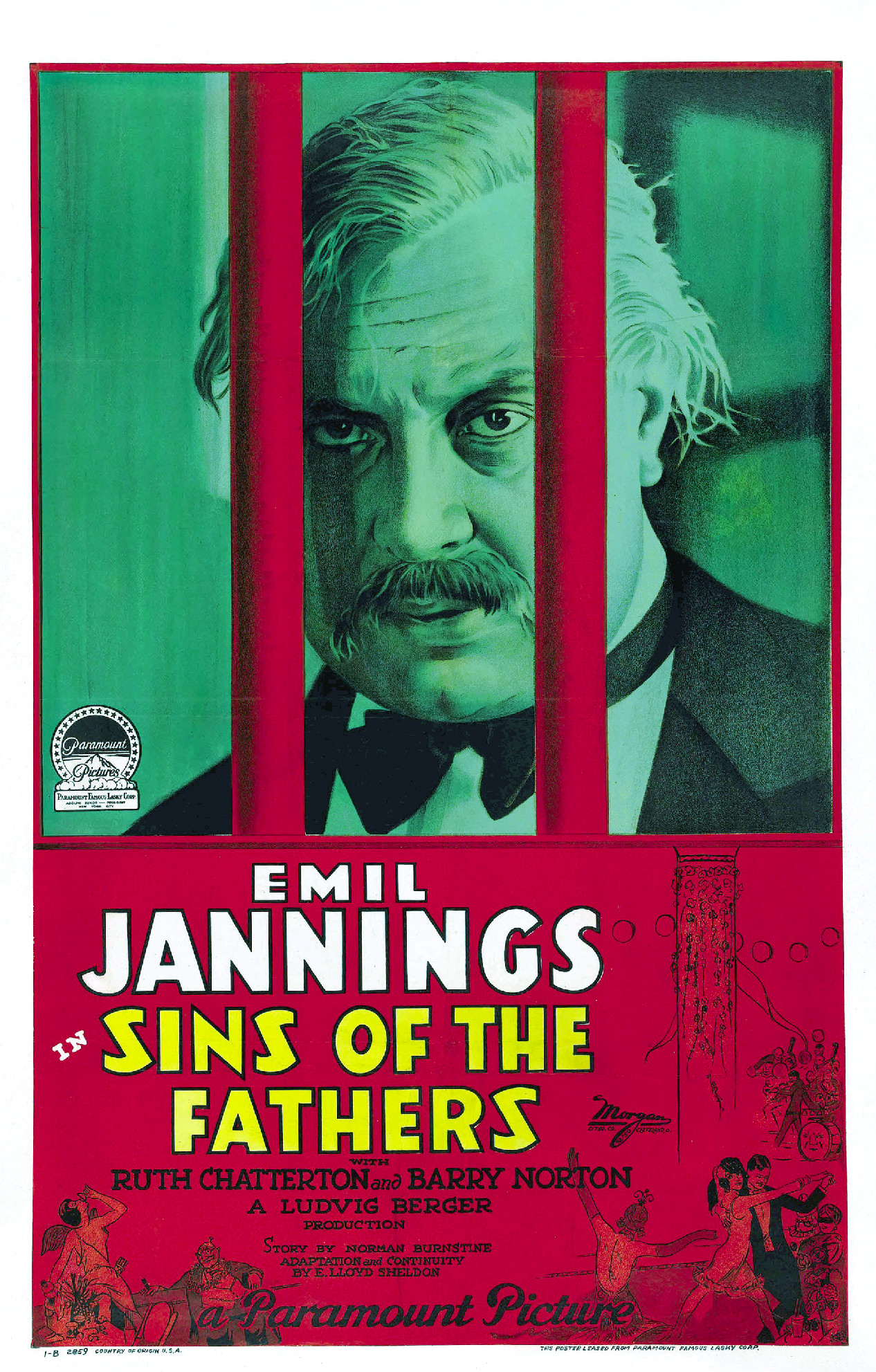 Poster for the American drama film Sins of the Fathers (1928). There are no copyright marks. At bottom left is 1-B 2859 Country of origin USA. At bottom right is This poster leased from Paramount Famous Lasky Corp.